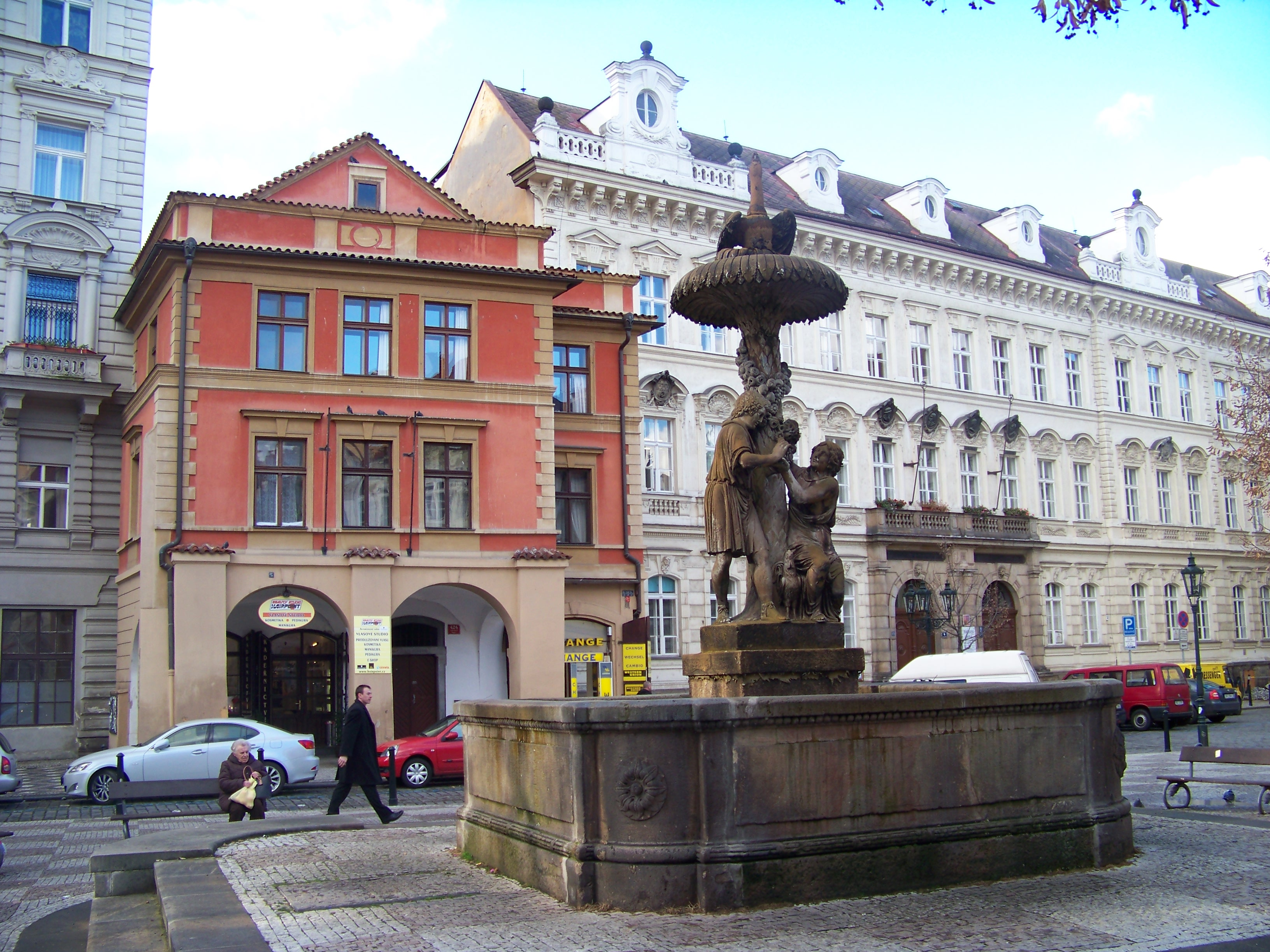 Prague, Old Town, the Czech Republic. Uhelný trh (Coal Market Square). A fountain.